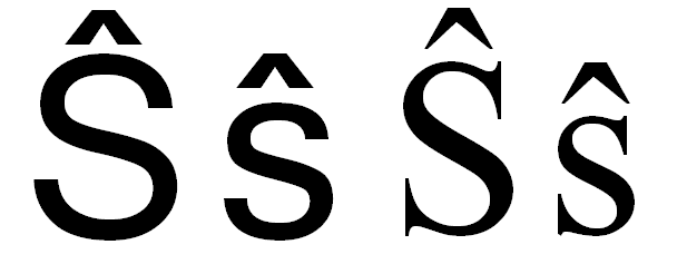 Latin_letter_Ŝŝ.